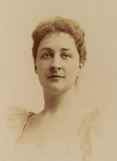 Depicted person: Emma Eames – singer